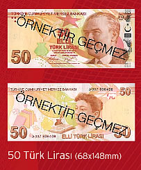 Turkish lira